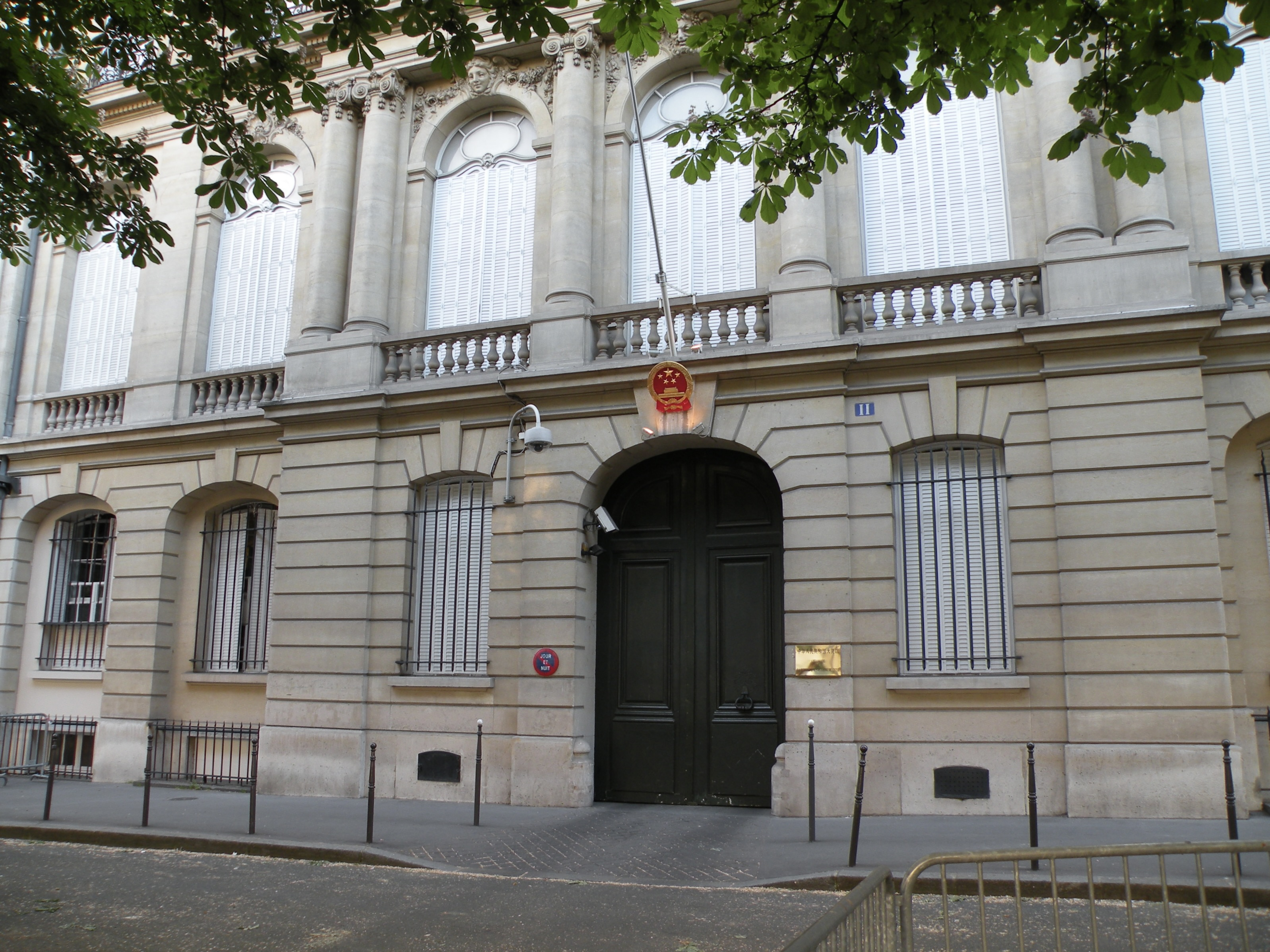 Chinese embassy in France, Paris